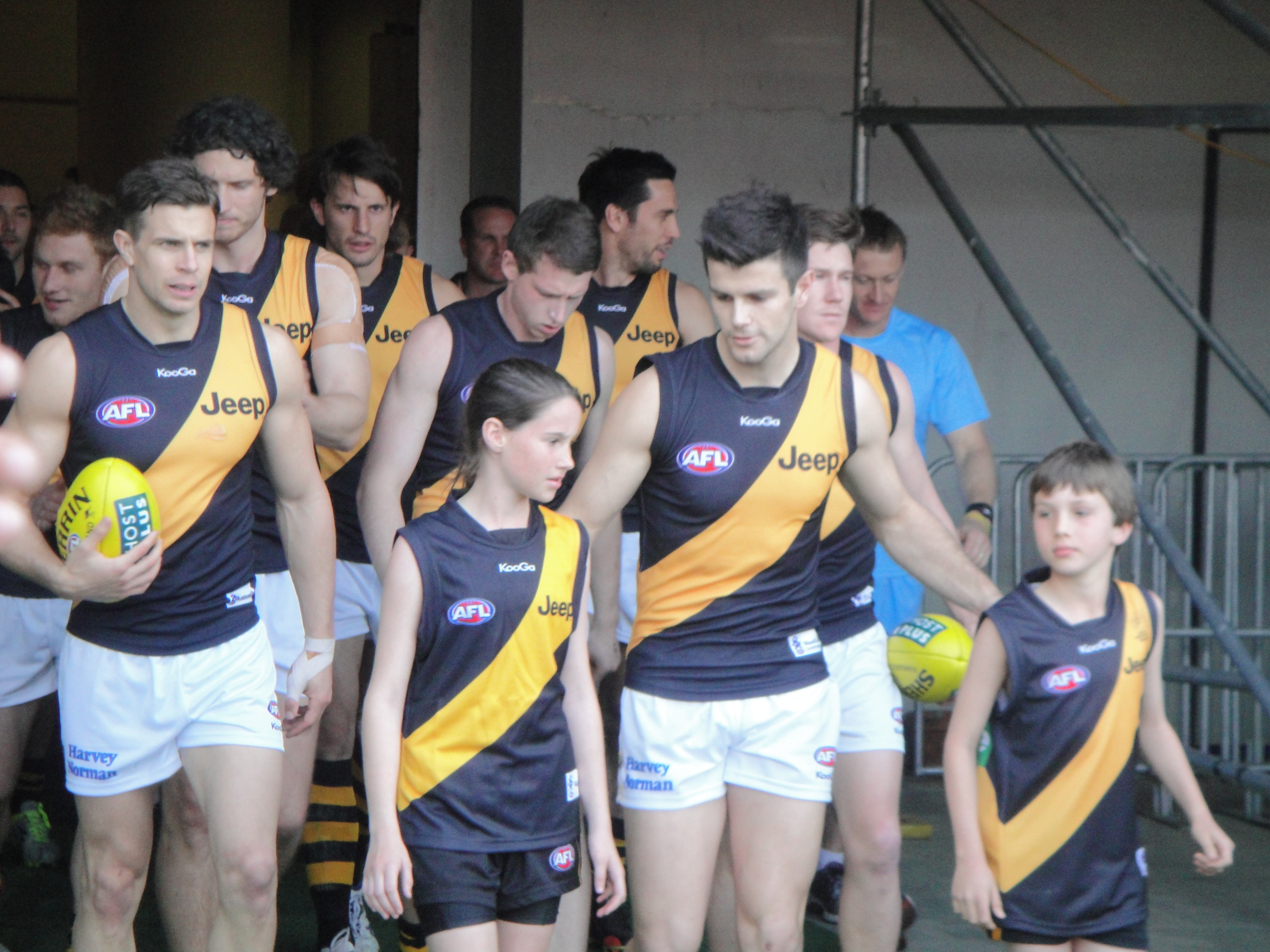 Trent Cotchin leads the Richmond Football Club out onto the field before a match against GWS in 2013.